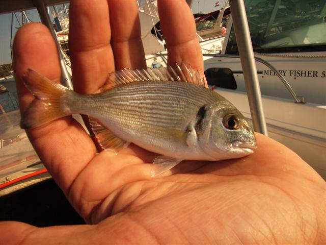 Juvenile Sparus aurata caught in Dalmatia, Croatia.